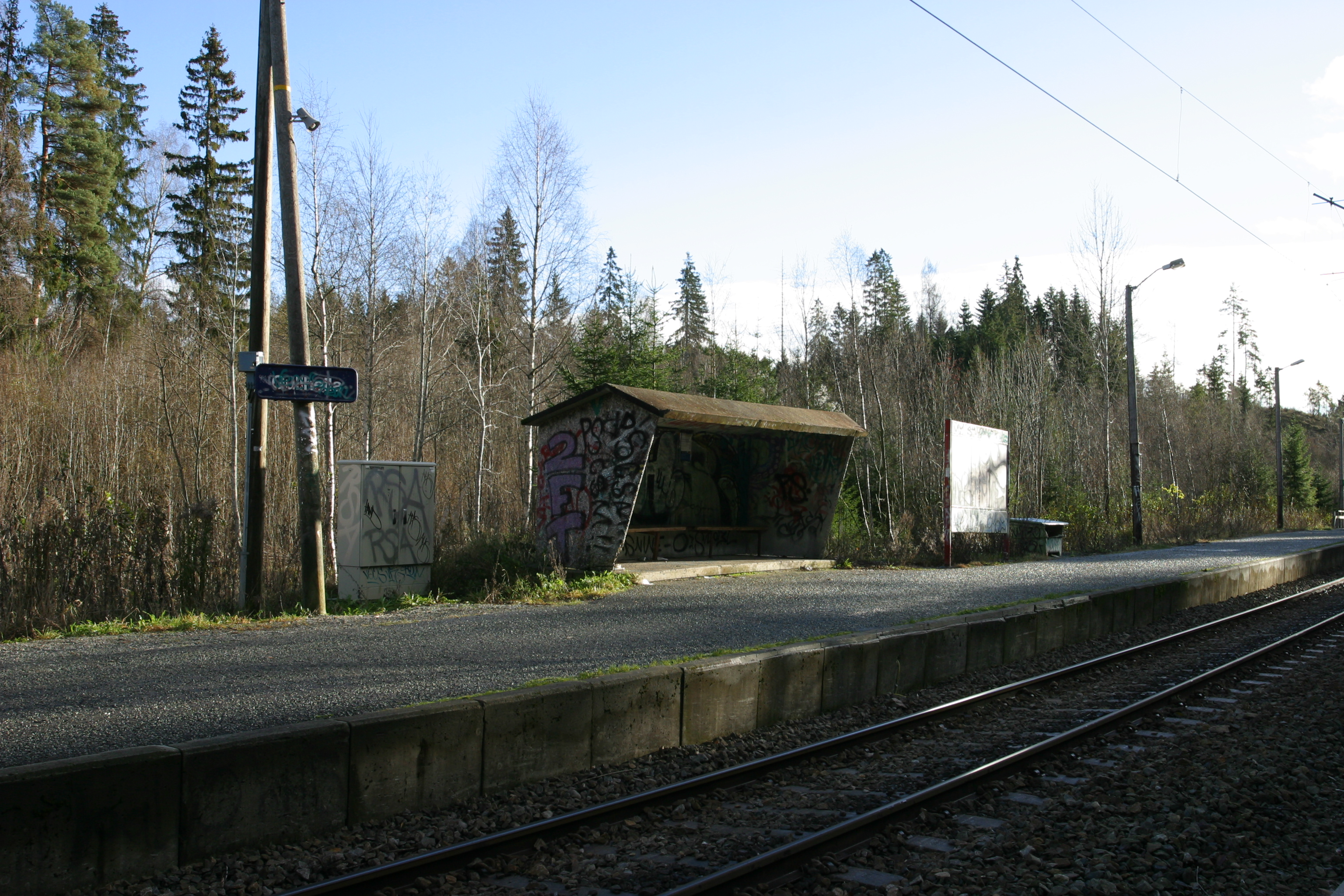 Picture of Gullhella train stop (Norway)